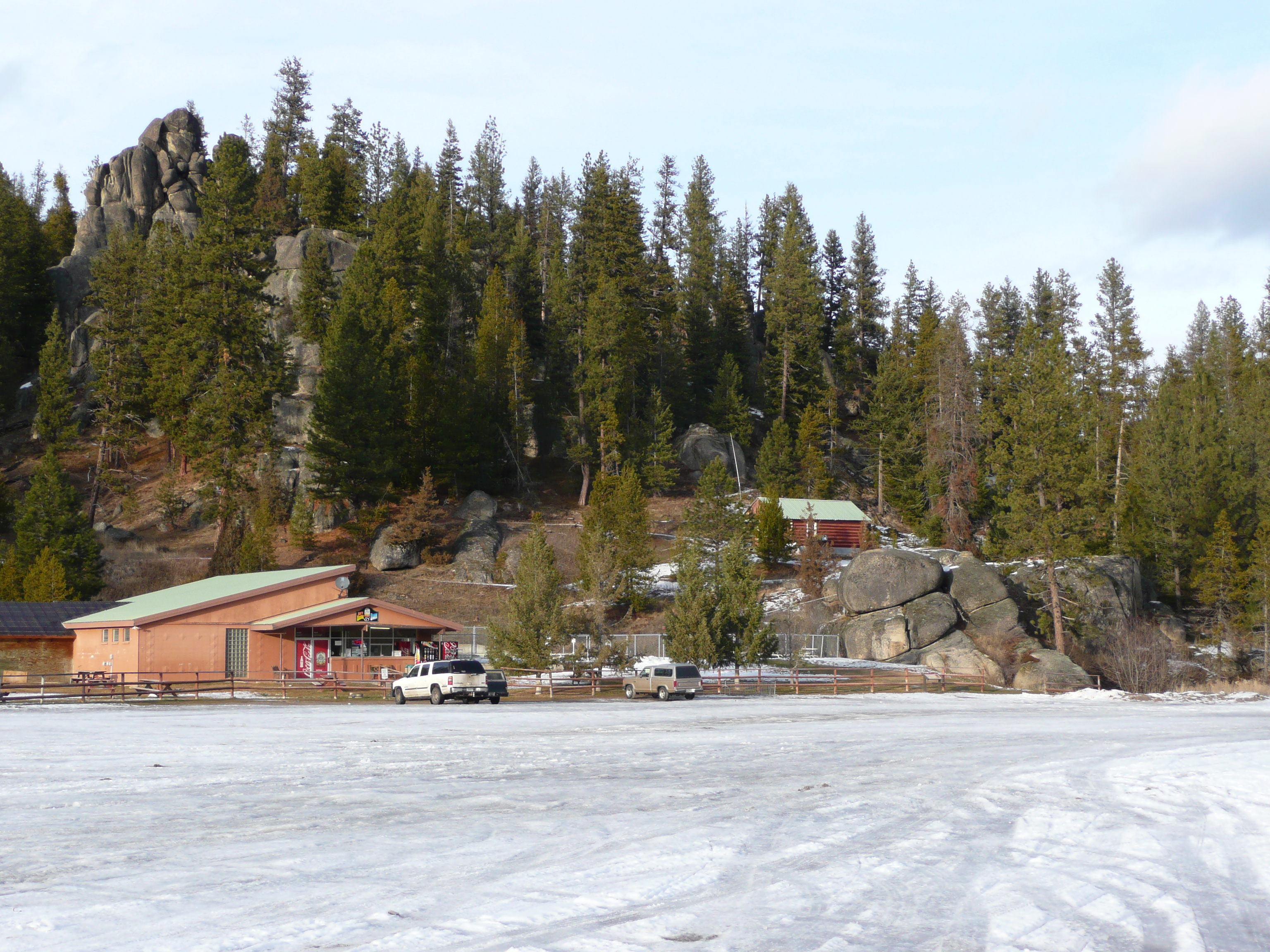 Lolo Hot Springs, Lolo, MT, 2011